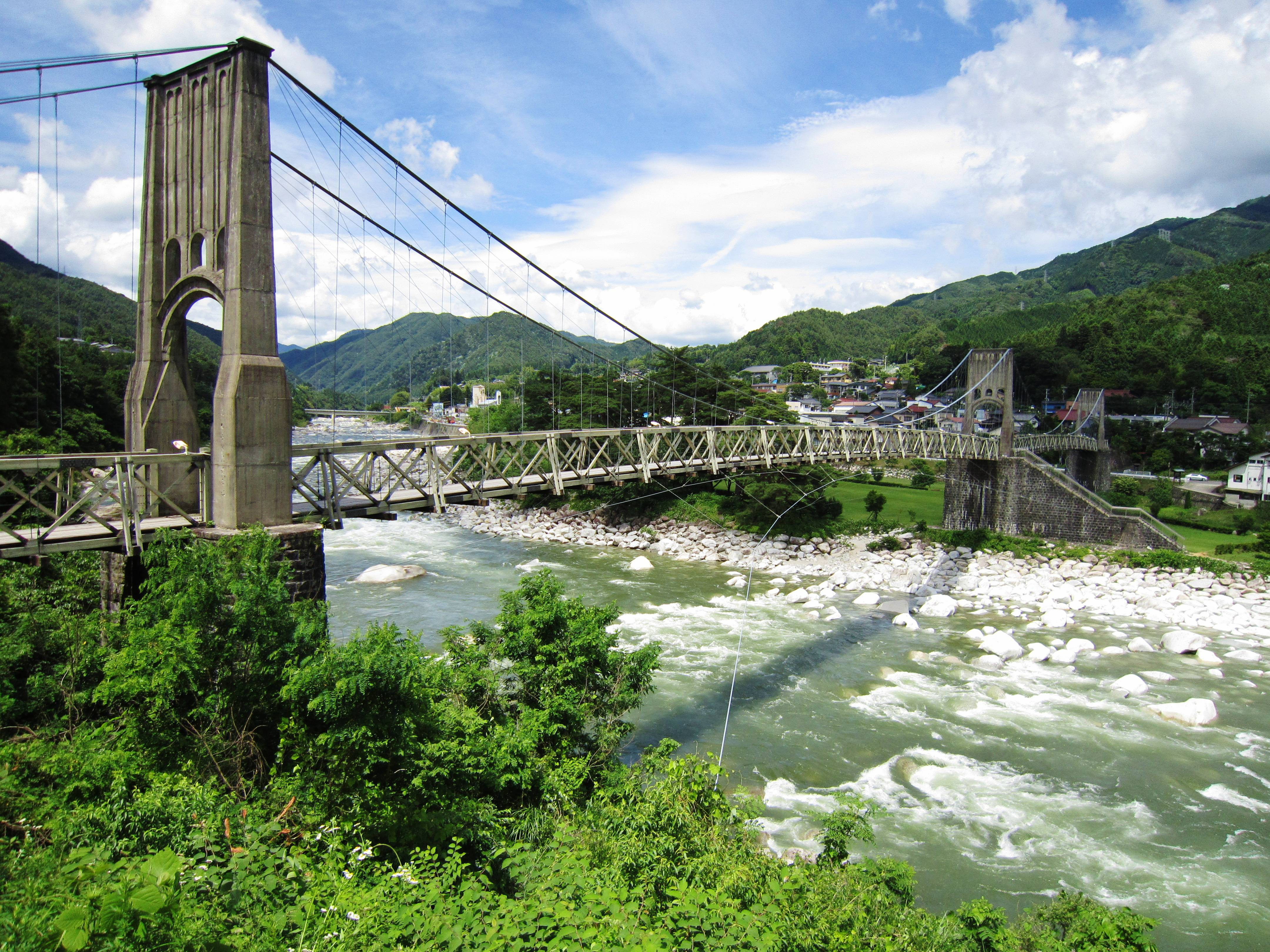 Momosukebashi Bridge.